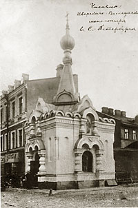 Iverskaya Chapel - 5, Ruzheinaya Street (now Mira Street) in Saint Petersburg. Built in 1908-1910 (architect Pavel Mulkhanov), closed and demolished in 1920s.